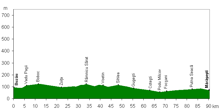 Elevation profile of the railway line Buzau-Marasesti